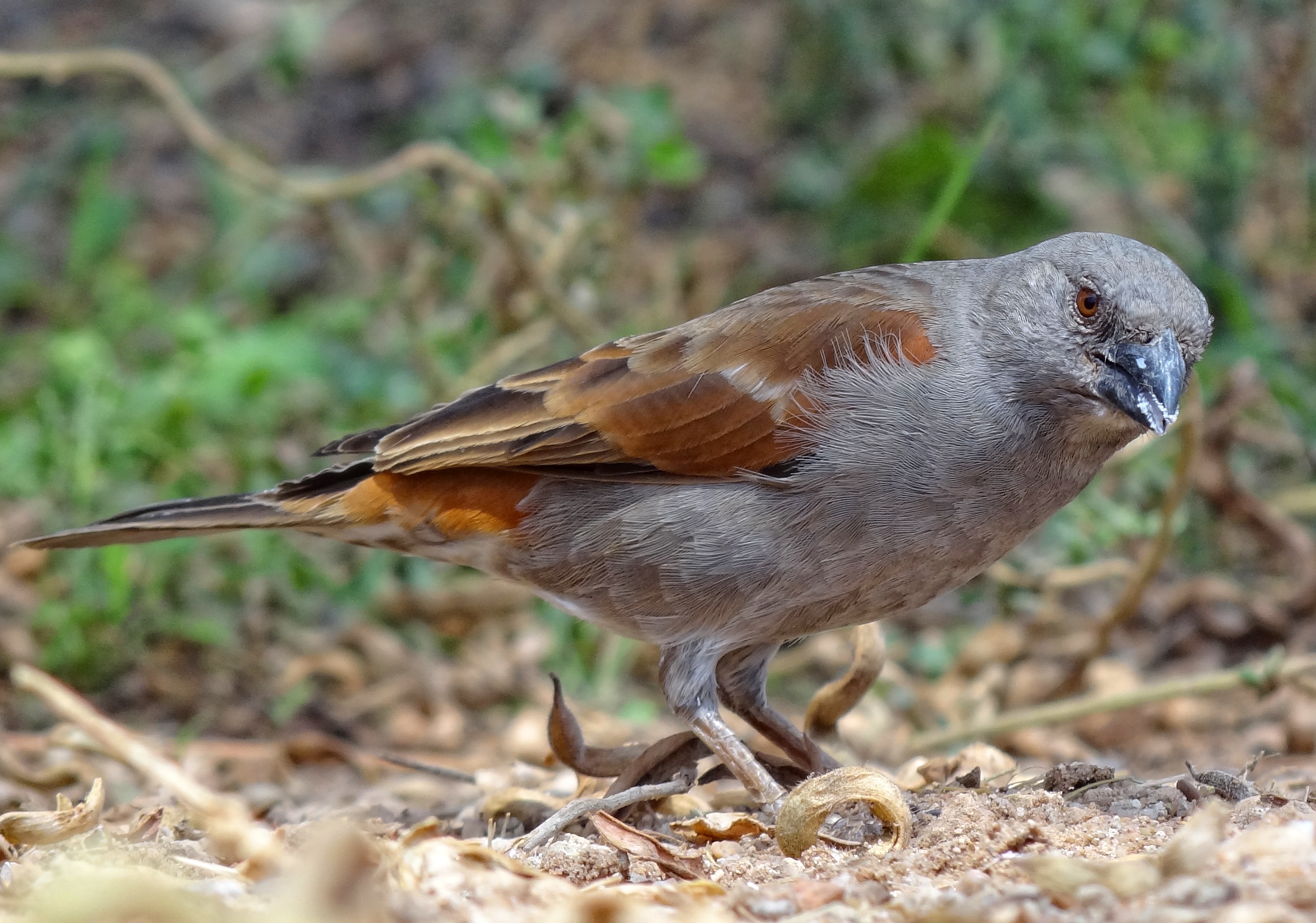 A Parrot-billed Sparrow Passer gongonensis in the Amboseli National Park in Kenya.